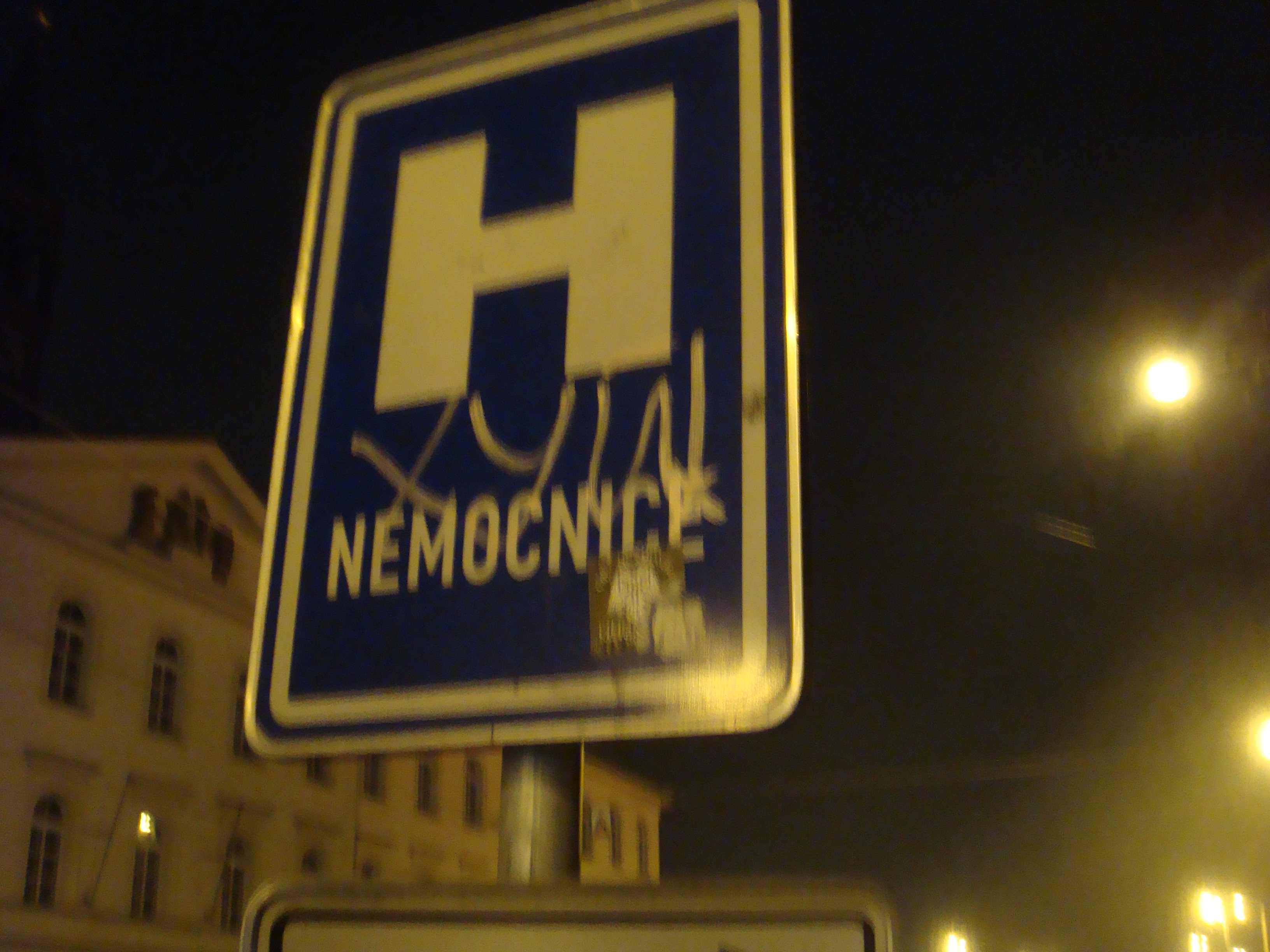 Obscene russian word хуй written on a street sign in Prague